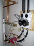 Mark Johnson, Geothermal Job.